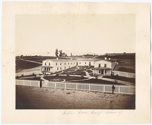 Digital ID: 1150071. U.S. Sanitary Commission Soldiers' Home. Camp Nelson, Kentucky.